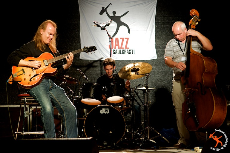 Saulkrasti Jazz 2009 Workshop teachers David Becker (guitar), Matthias Philipzen (drums) and Michael Schöne (doublebass) in the Tuesday Jam Session at Saulkrasti Jazz Festival 2009.